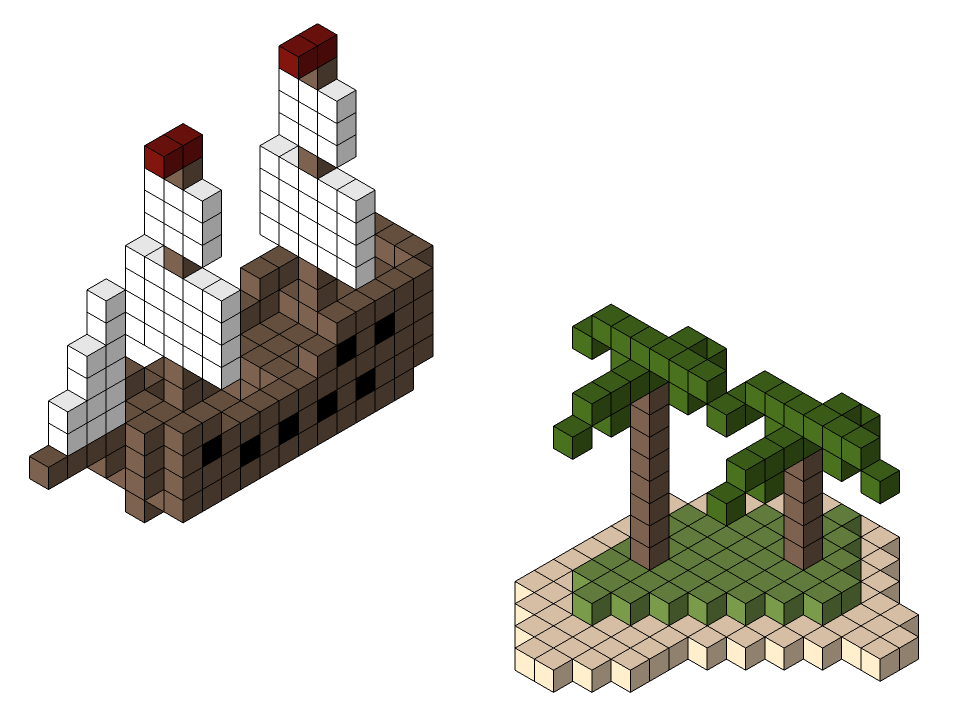 Pixelship island, ship and island fully made out of blocks like Minecraft